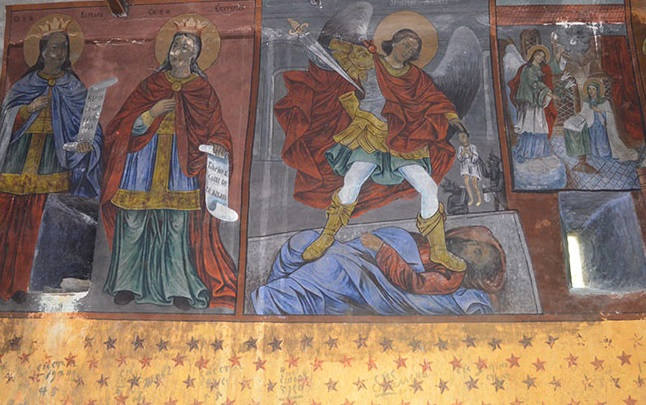 Donja Ljubata Church Fresco